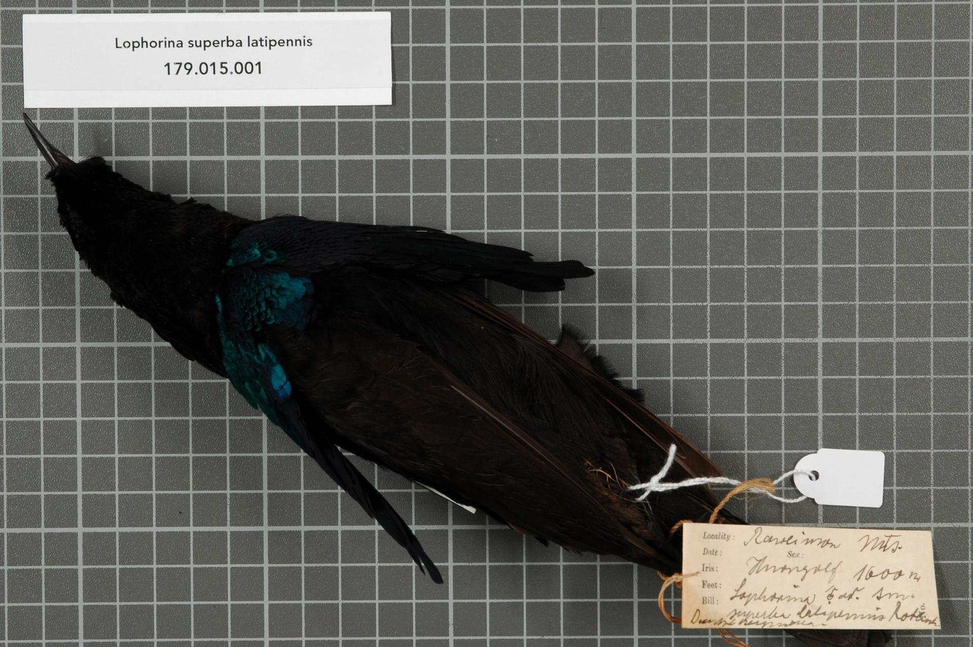 Lophorina superba latipennis Rothschild, 1907